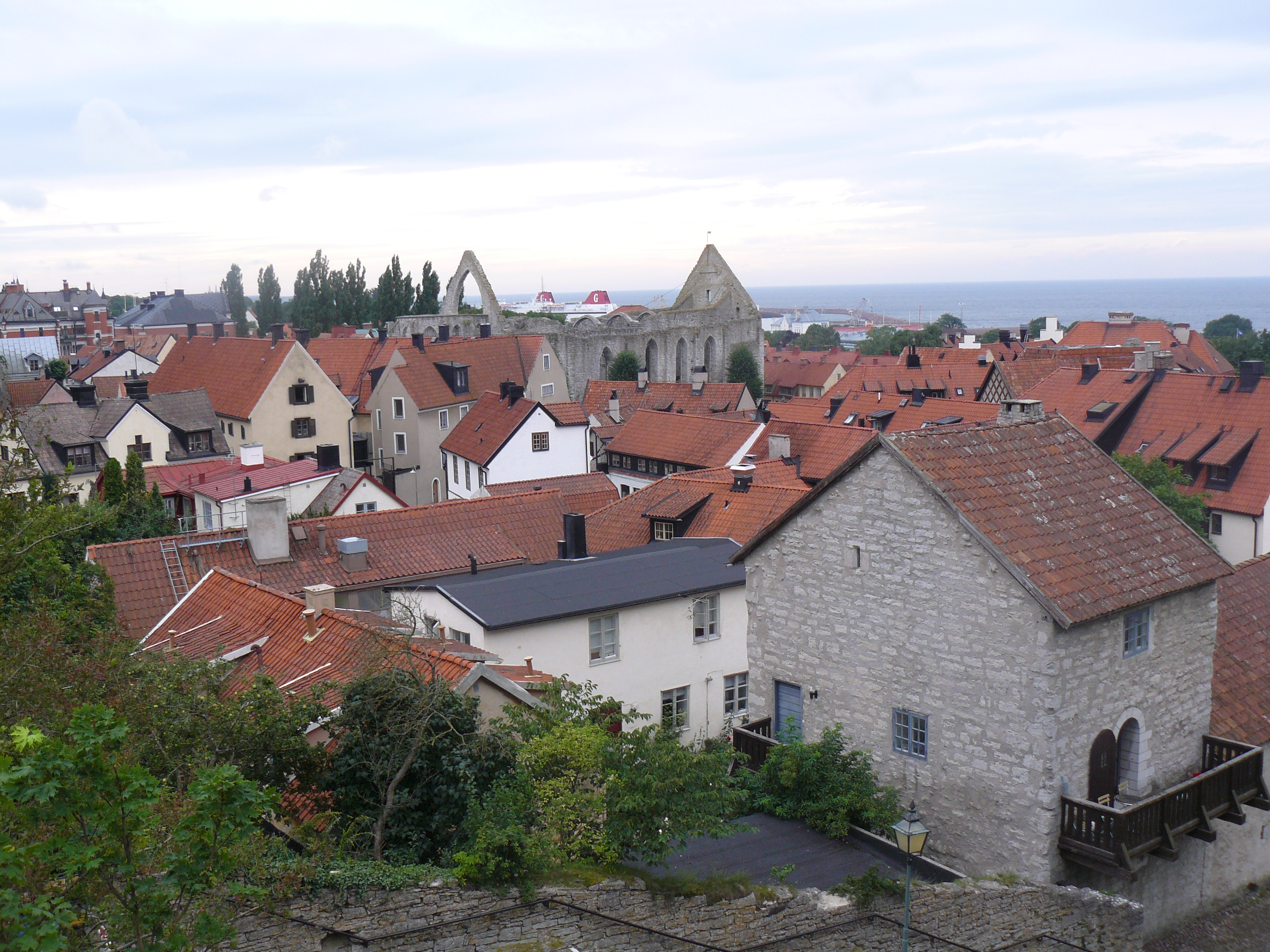 View of Visby from top of Domberget. Church ruin of Sankta Katarina / Sankta Karin / Saint Catherine in the middle. Zdjęcie zrobione w Visby w sierpniu 2007 roku.